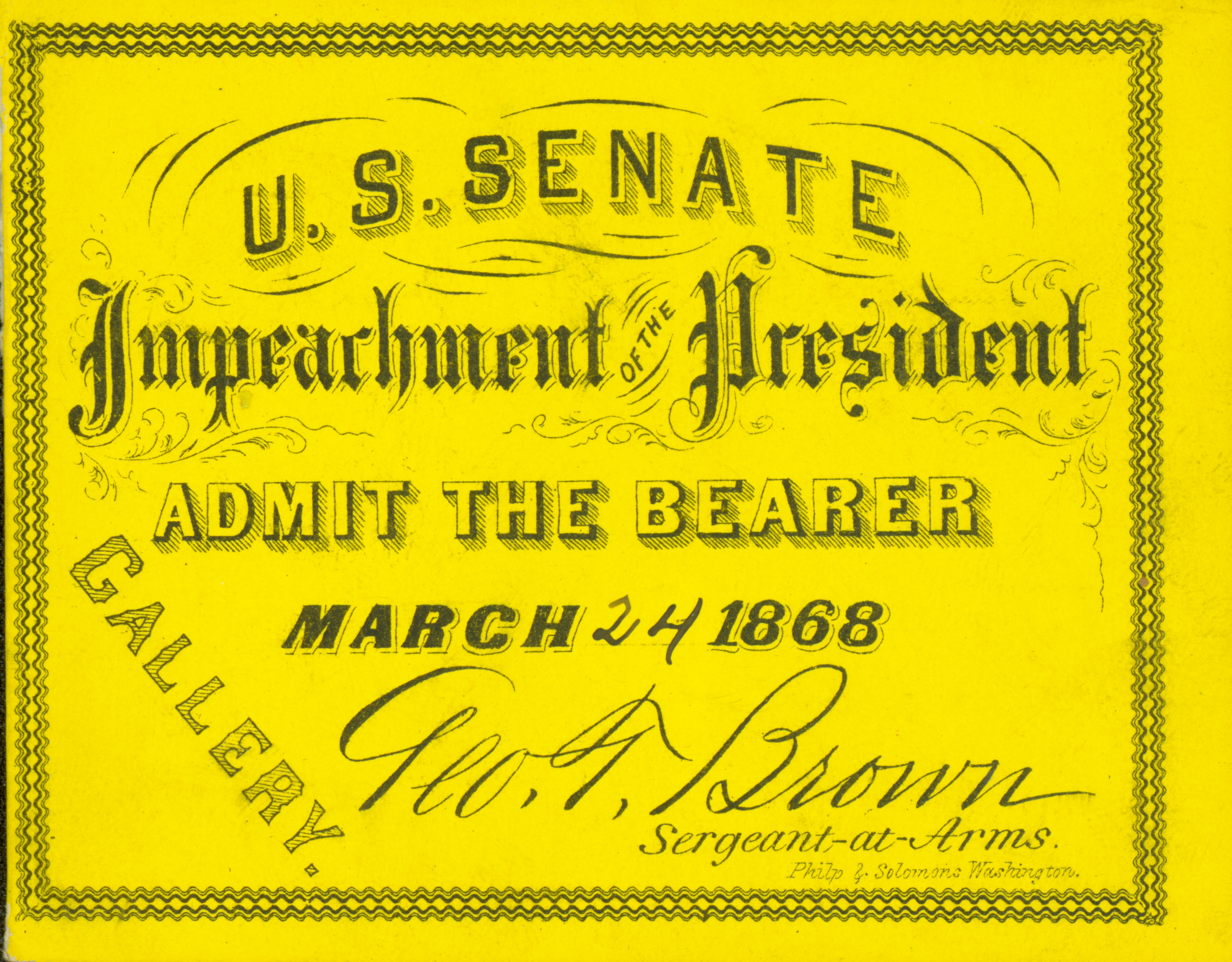 Title: Two admission cards to the U.S. Senate impeachment proceedings [for President Andrew Johnson], May 16, 1868